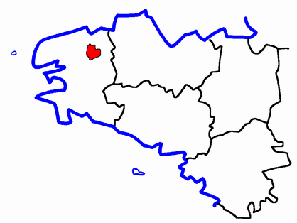 Description: Map for localisazion of cantons of Bretagne region in France Source: made by Hervé Tigier in april 2005 from another large map (published in 1990)